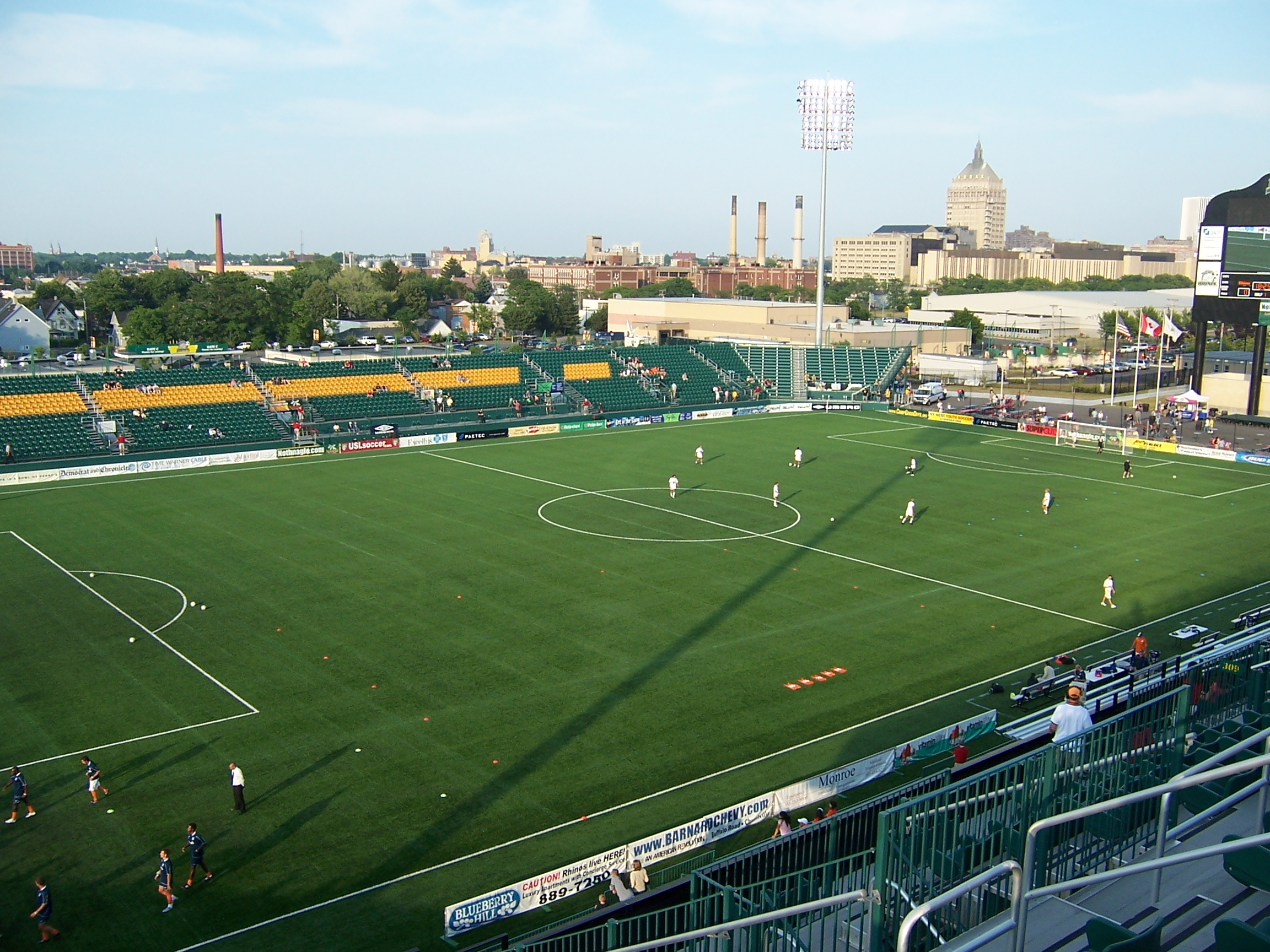 PAETEC Park, a soccer-specific stadium in Rochester, New York. This is the home stadium for the Rochester Rhinos soccer team and the Rochester Rattlers lacrosse team. This picture was taken prior to a soccer game. The camera is facing east, from the highest row of section 311. Kodak Tower, the global headquarters of the Eastman Kodak company, can be seen between the light pole and the scoreboard assembly. The rest of downtown Rochester's high rises are behind the scoreboard.